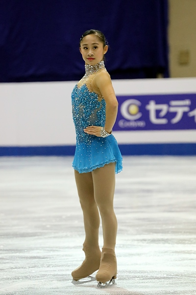 Photos – Junior World Championships 2017 – Ladies